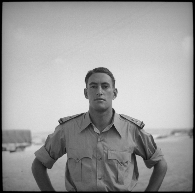 Portrait of Lieutenant Colonel Leonard Whitmore Thornton. Photograph taken at Maadi, Egypt, in August 1943 by George Frederick Kaye.